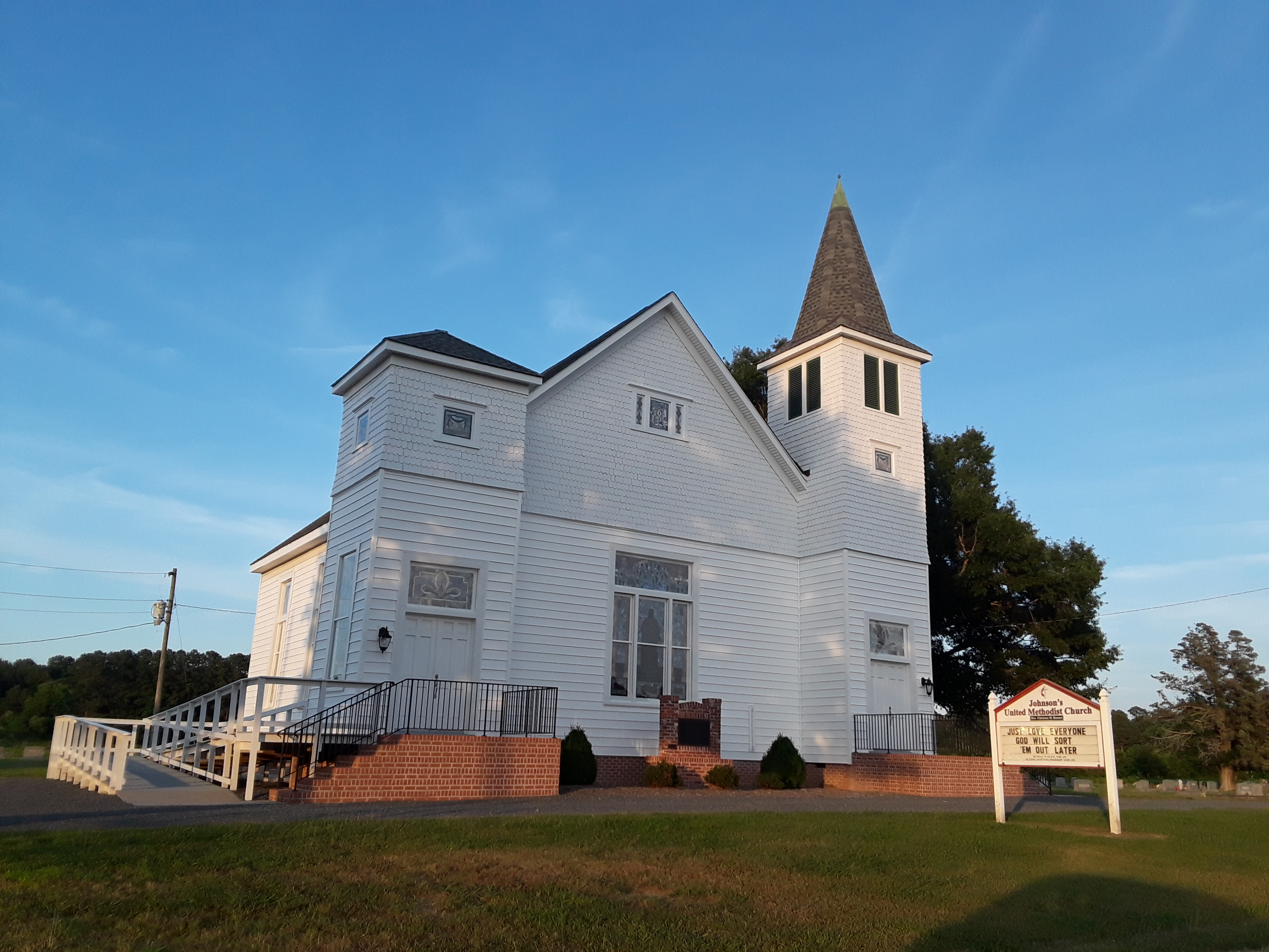 Taken on a visit to the Eastern Shore of Virginia, July 2018